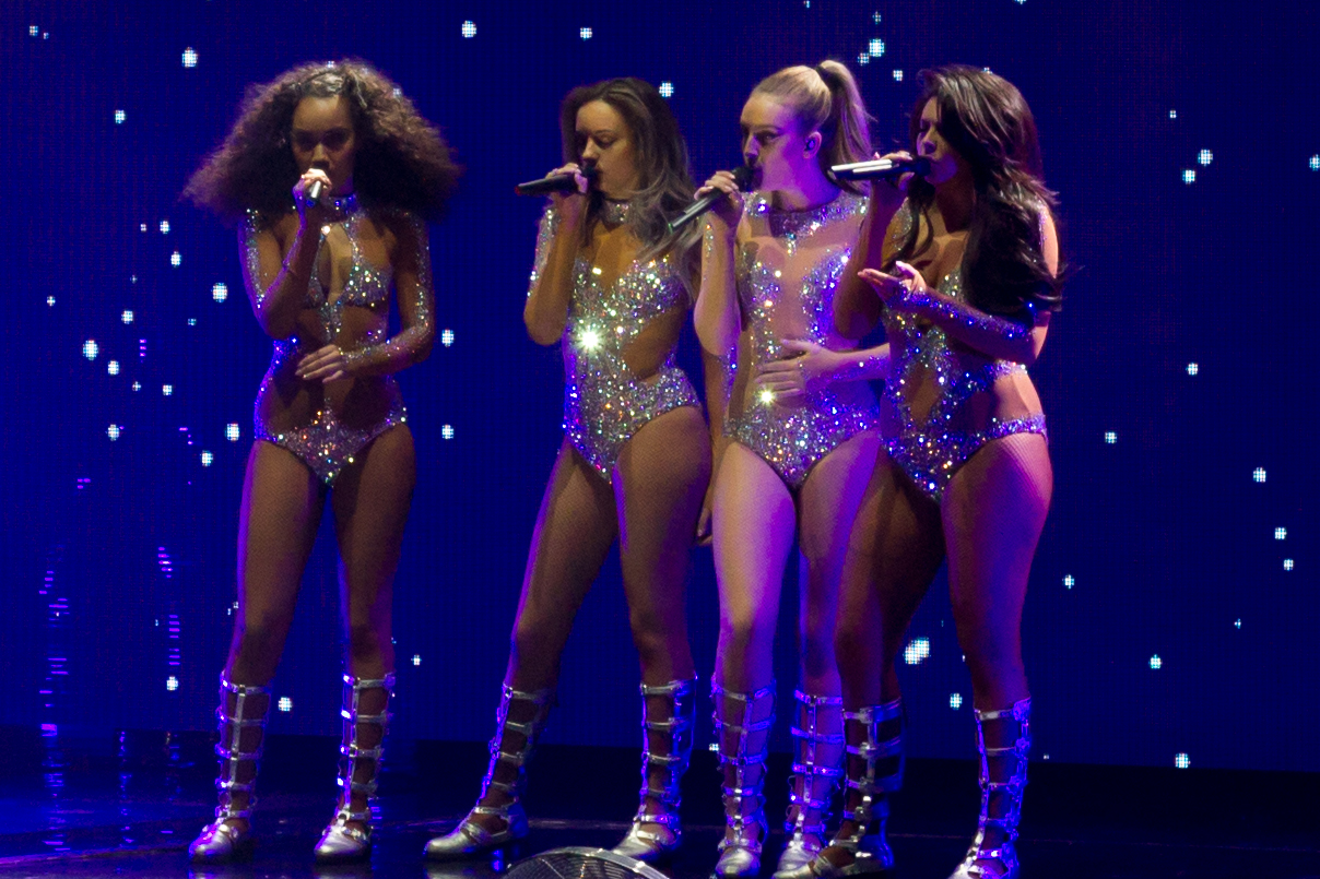 Little Mix